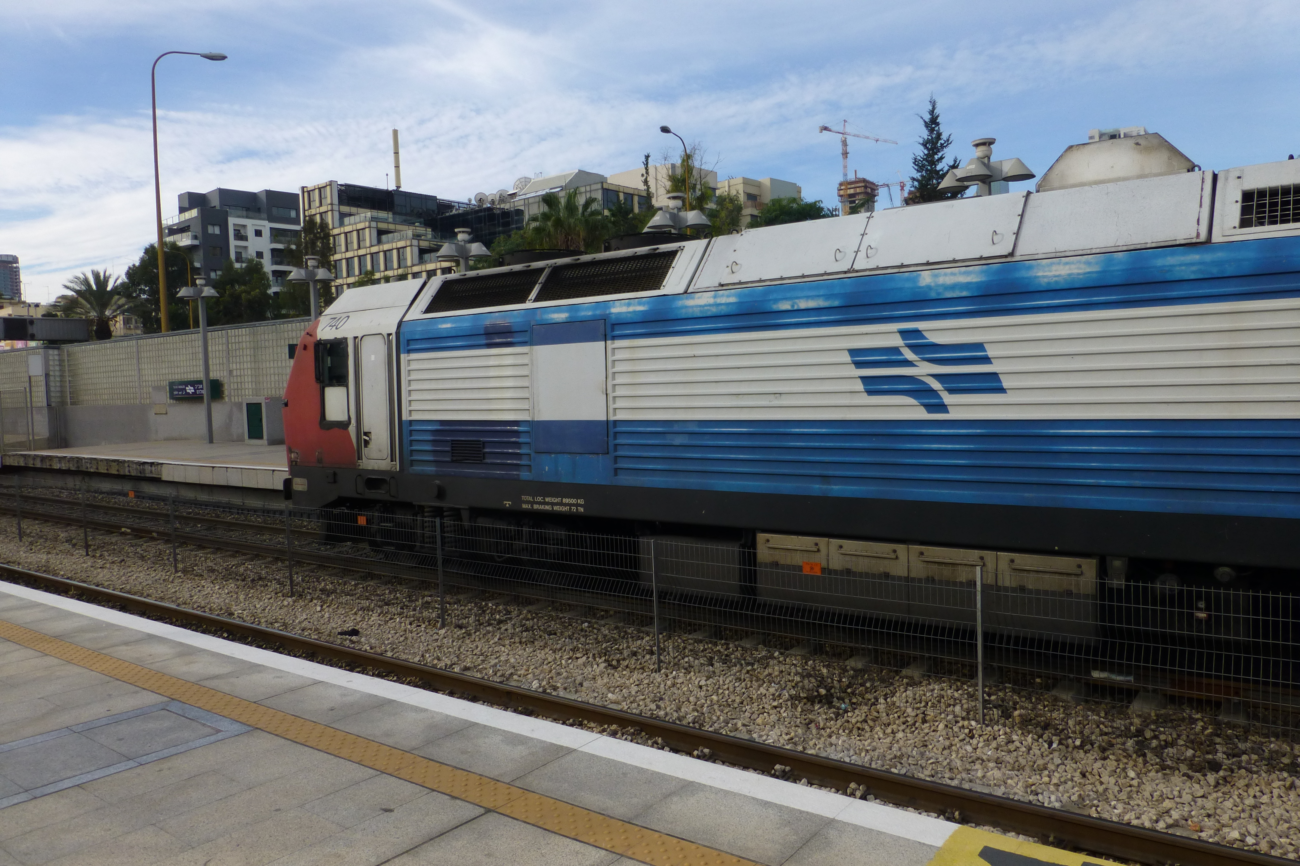 Tel Aviv HaShalom train station